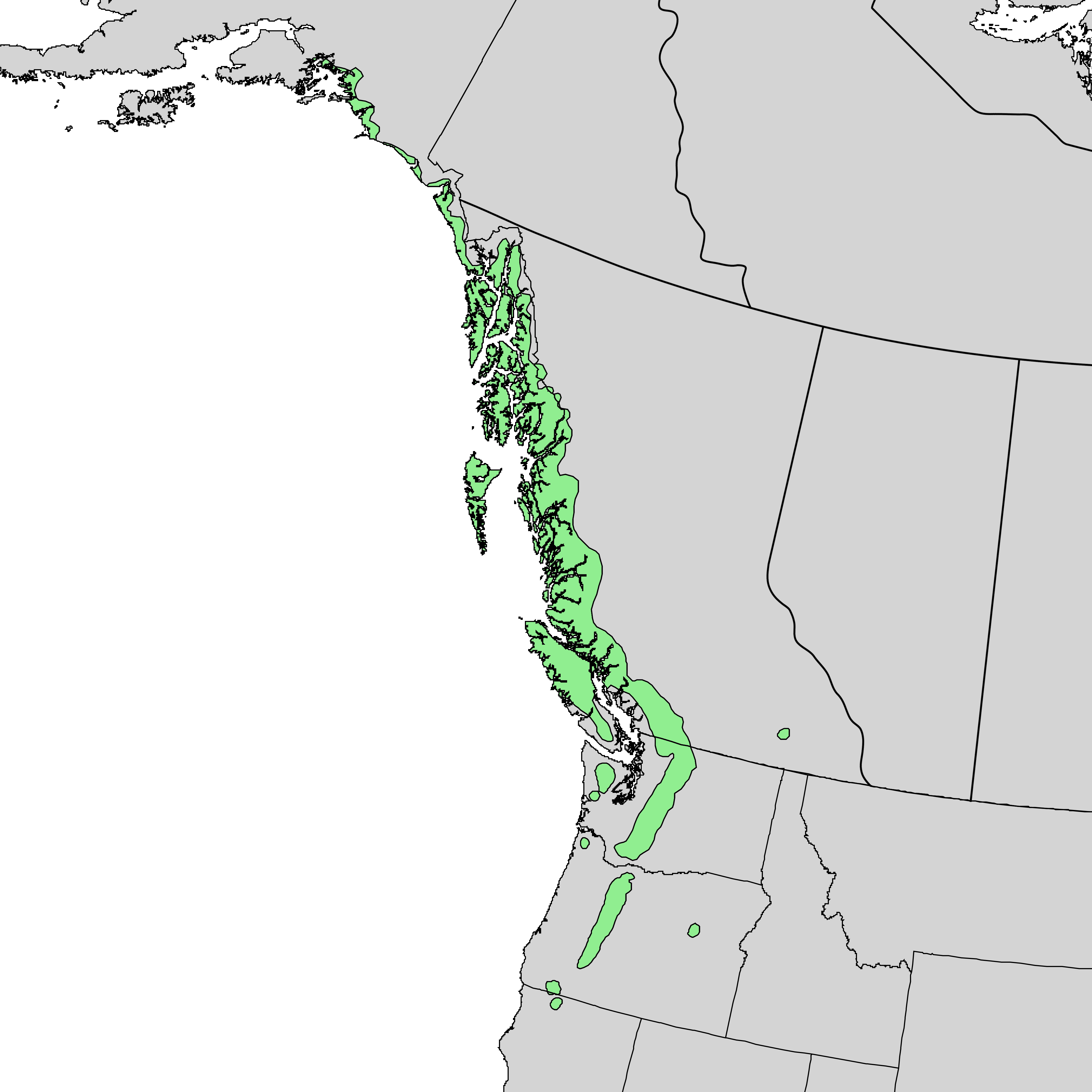 Natural distribution map for Cupressus nootkatensis